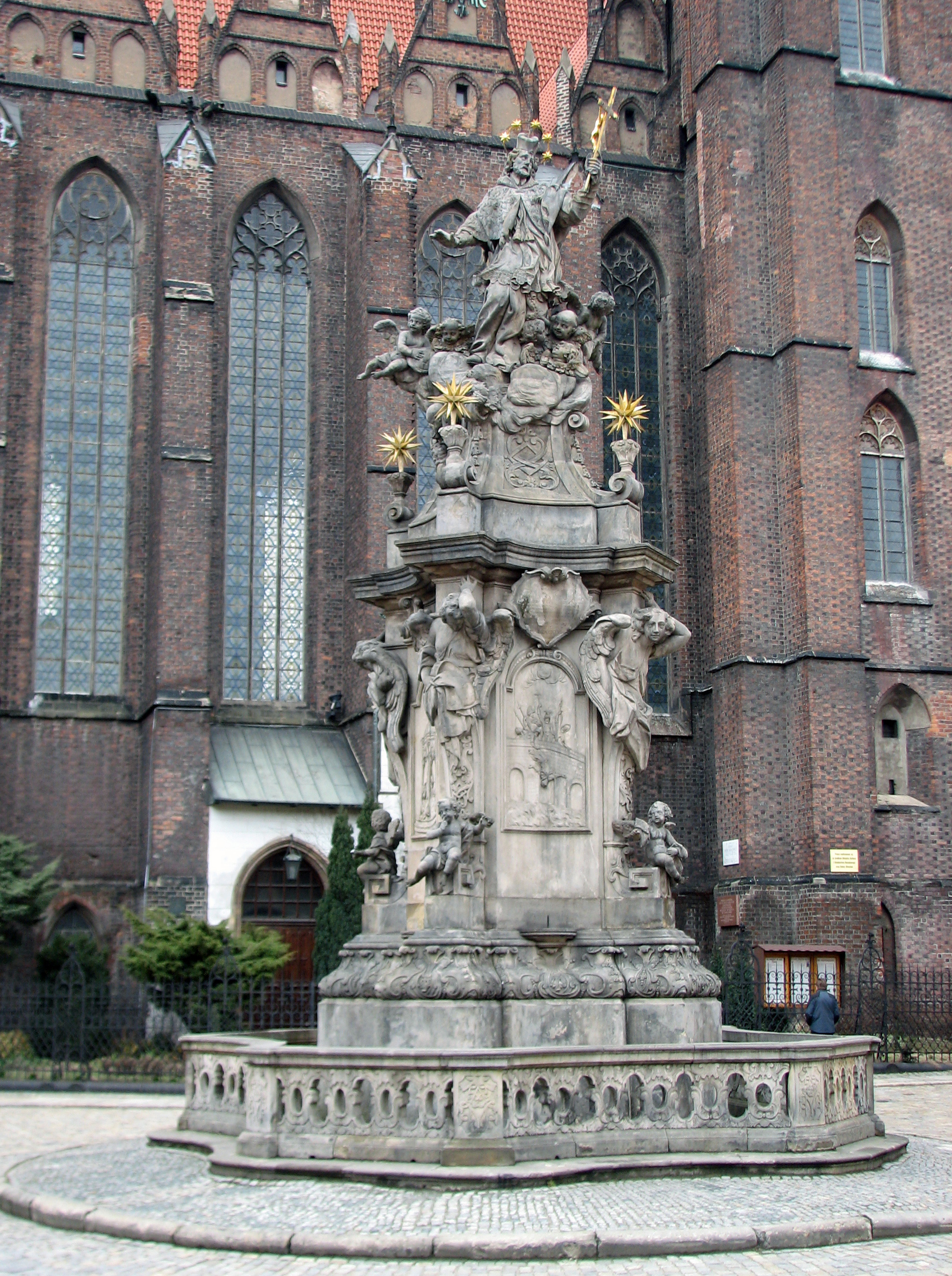 Monument of Saint John of Nepomuk against a background of church of the Holy Cross and Saint Bartholomew in Ostrów Tumski in Wrocław.